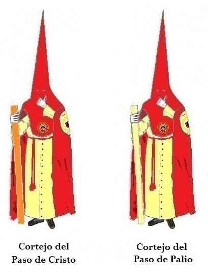 NazarenoHermandadMisericordia